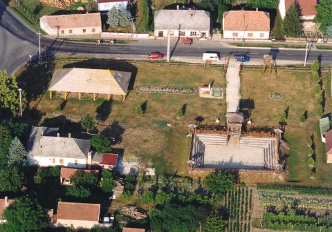 Felsőrajk, Hungary, aerialphotography